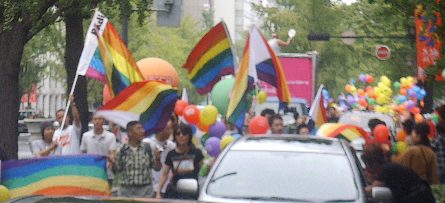 First gay pride in osaka, oct 2006